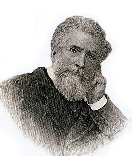 Copperplate engraving of pencil portrait of John Lothrop Motley (artist unknown) used in Edward Emerson's "Early Years of the Saturday Club" (copyright expired).